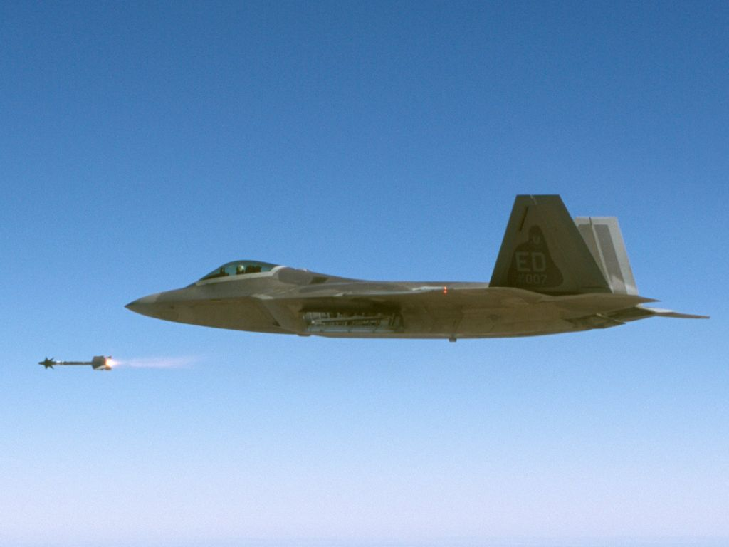 Lockheed Martin test pilot Jim Brown of the F/A-22 Combined Test Force at the controls of Raptor 4007 successfully launches a guided AIM-9 Sidewinder short range missile over White Sands Missile Range in New Mexico, Nov. 22, 2002.